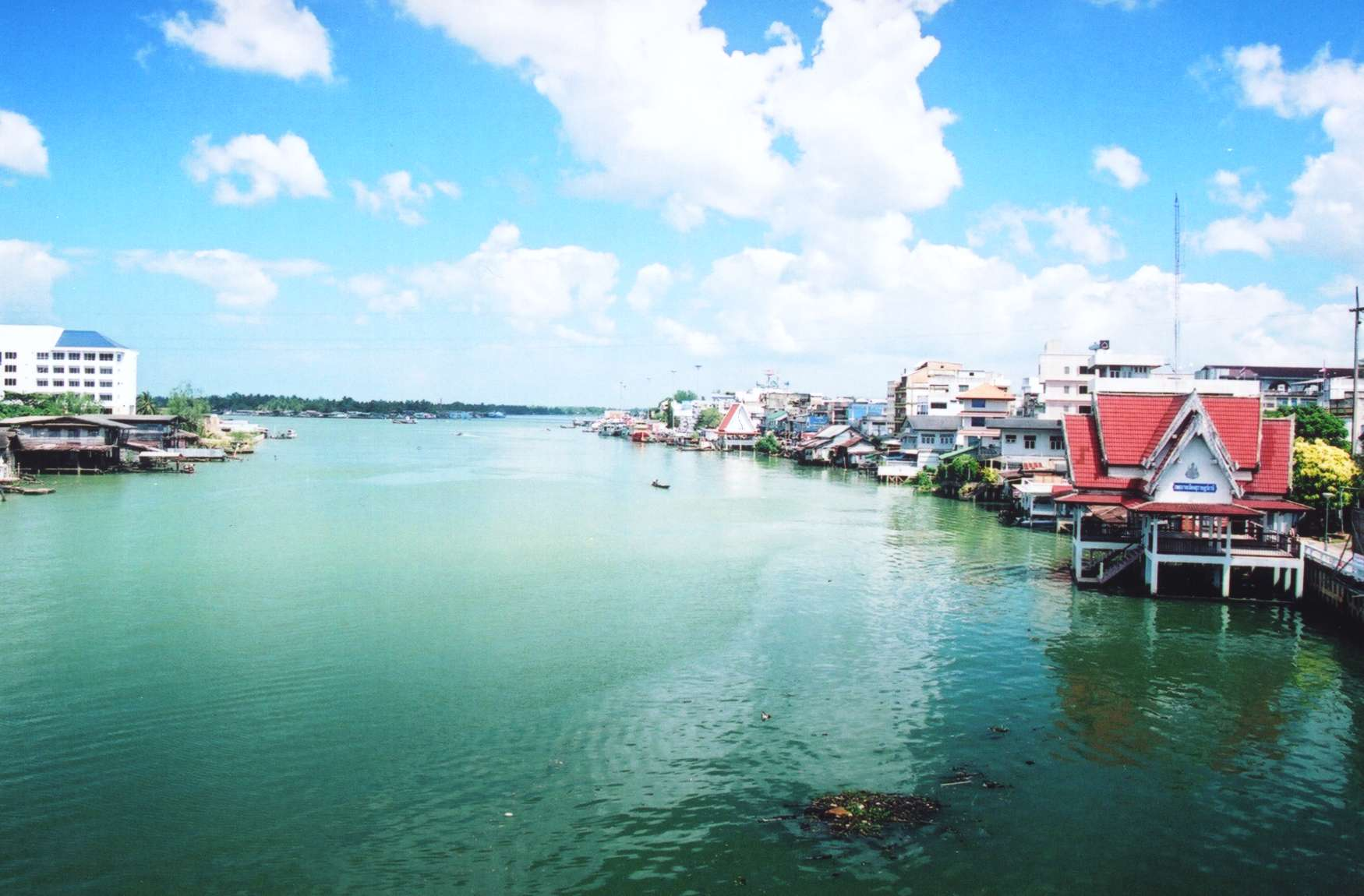 Waterfront of Surat Thani, Thailand, as seen from the Bridge connecting the town with Ko Klang Nam Lamphu (Don Nok Road). Photo taken by User:Ahoerstemeier on January 21 2005.